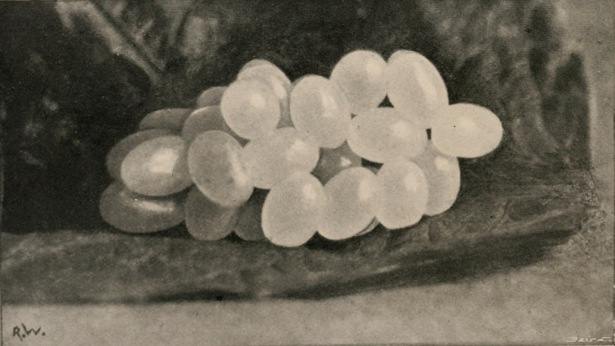 Photo of cluster of eggs of Geomalacus maculosus deposited in captivity.